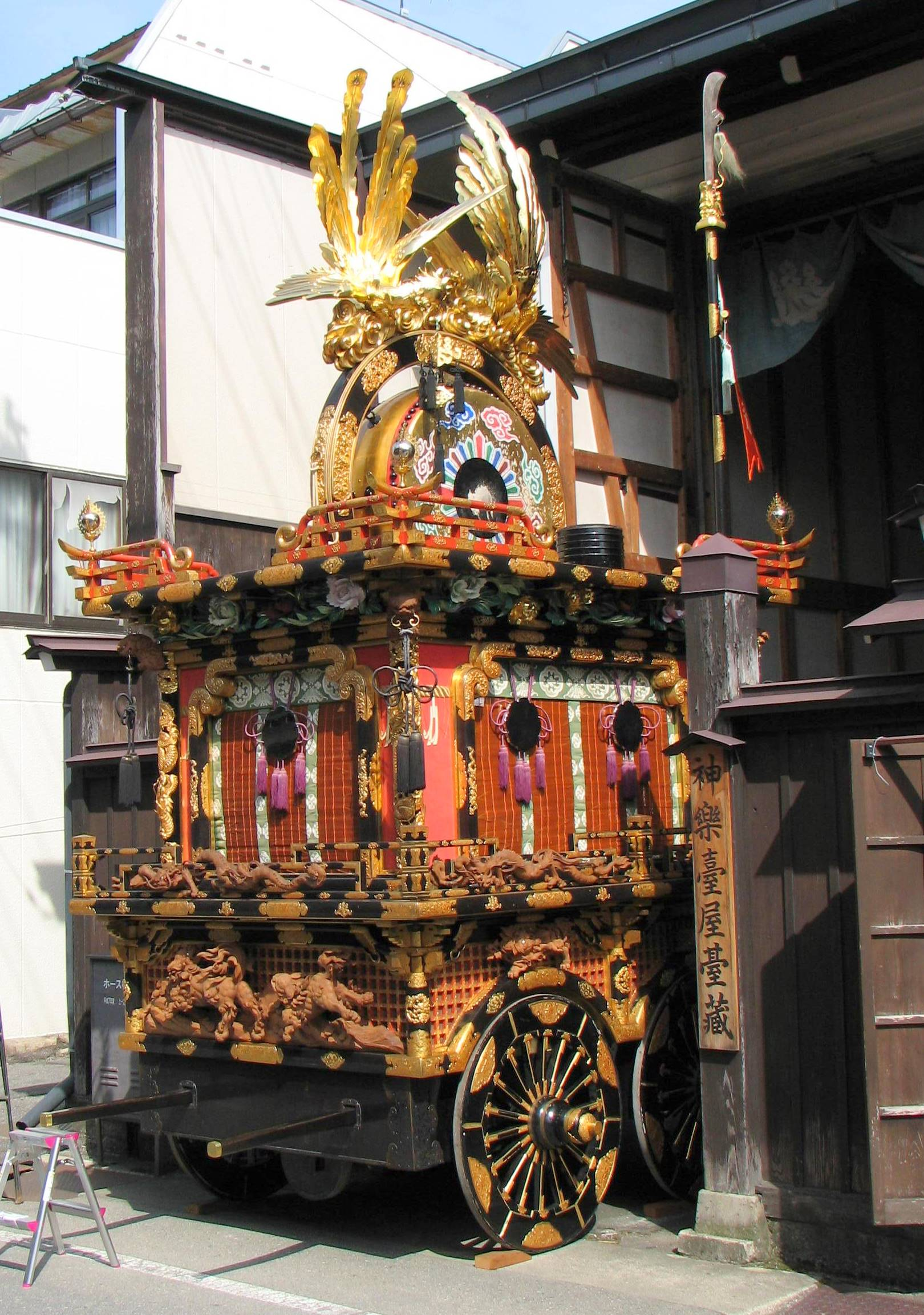 Kagura Tai Float from the Takayama Matsuri, Takayama, Gifu Prefecture, Japan